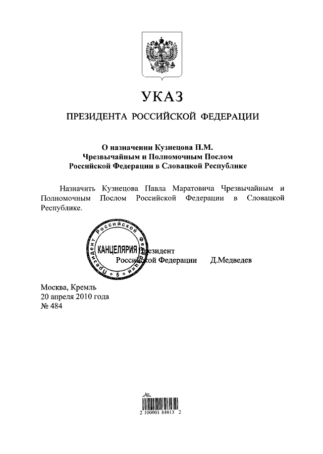 Presidential decree on the appointment of P. M. Kuznetsov as the Plenipotentiary Ambassador of the Russian Federation to the Slovak Republic